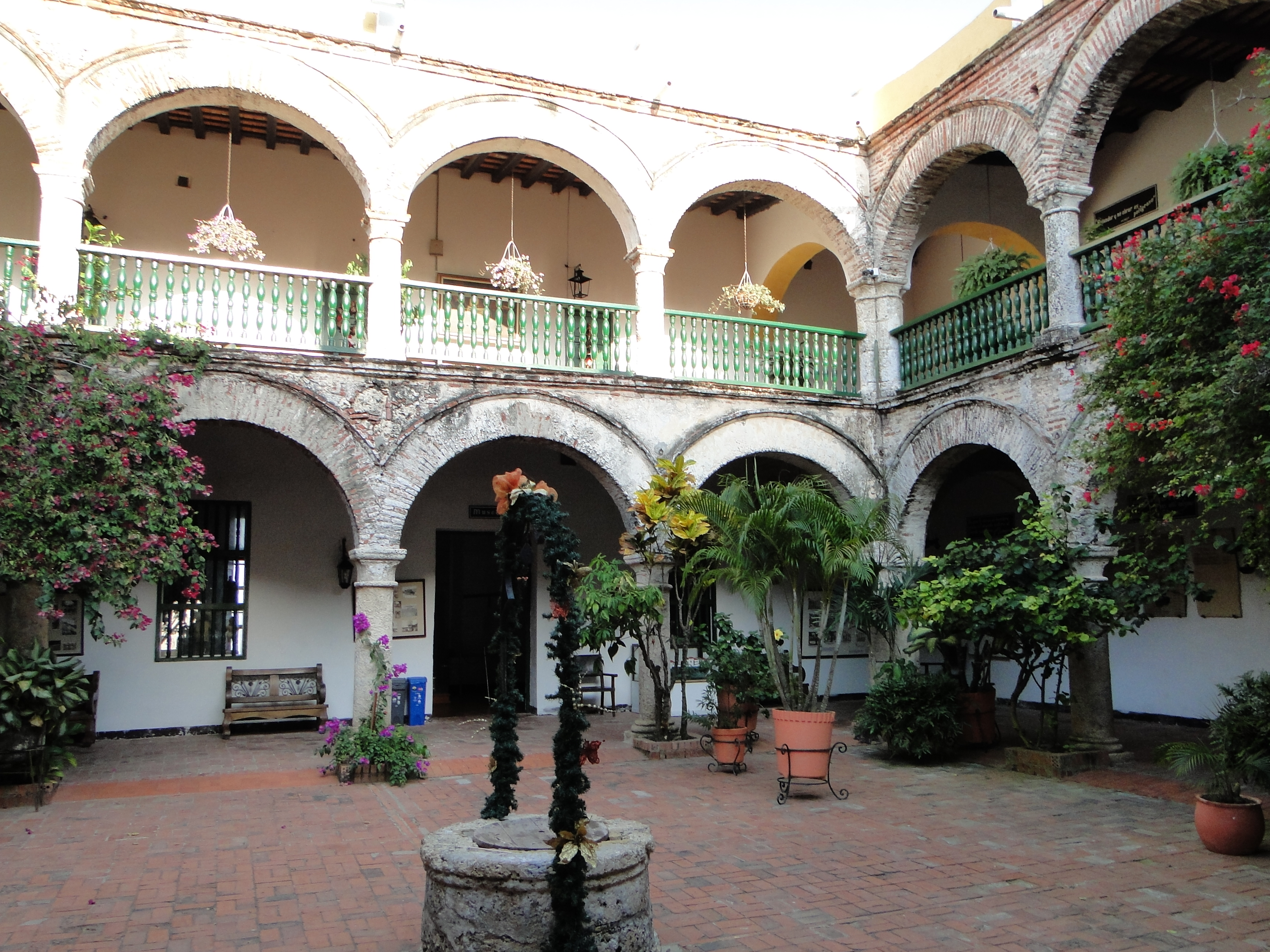 In the courtyard of the monastery de la Popa, Cartagena (Columbia)